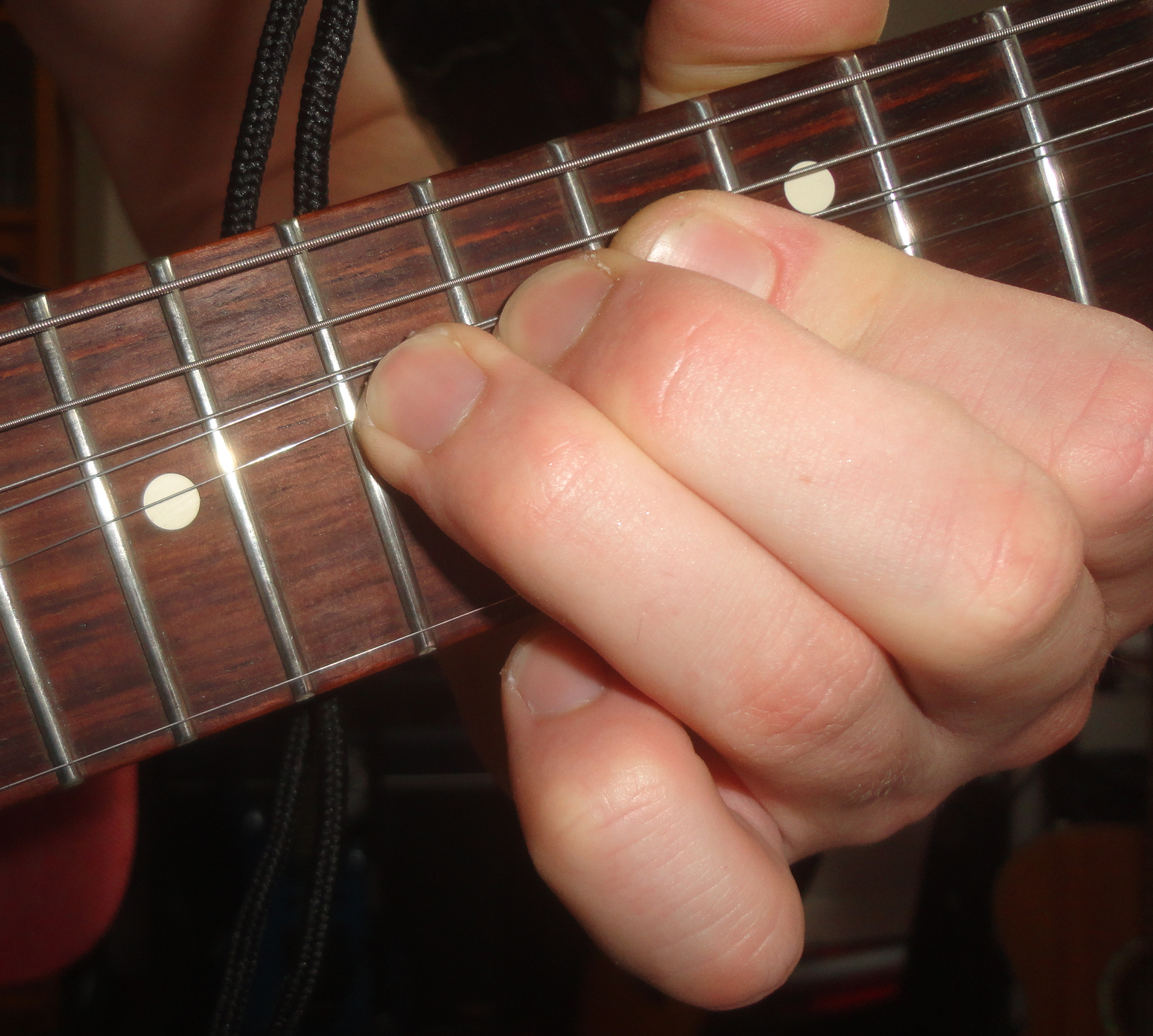 whole tone bend with 3 fingers